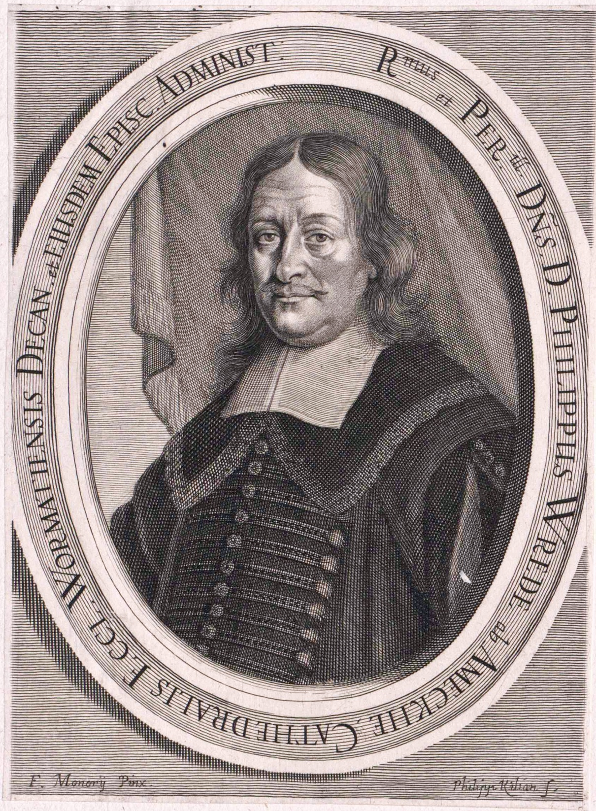 Philipp von Wrede zu Amecke († 1677) Domdekan in Worms und dortiger Diözesanadministrator